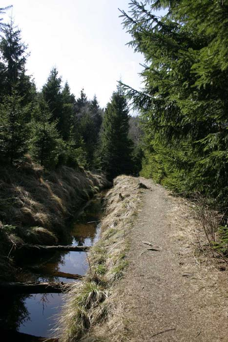 The "Grüne Graben" (german, lit. "green ditch") near Pobershau in Ore Mountains, Saxony, Germany. This 8 kilometers long ditch was built in the late 17th century to suplly the Pobershau silver and tin mines with water power.